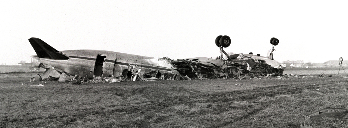 The day after Linjeflyg Flight 277 crashed. Picture of the plane.